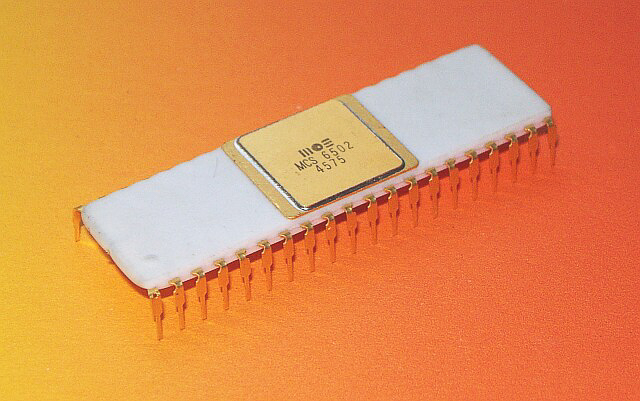 A MOS Technology MCS6502 microprocessor in a white ceramic 40-pin dual in-line package. The package's "4575" date code shows this chip was manufactured in early November 1975 (week 45), only a few months after MOS Technology had introduced the 6502.